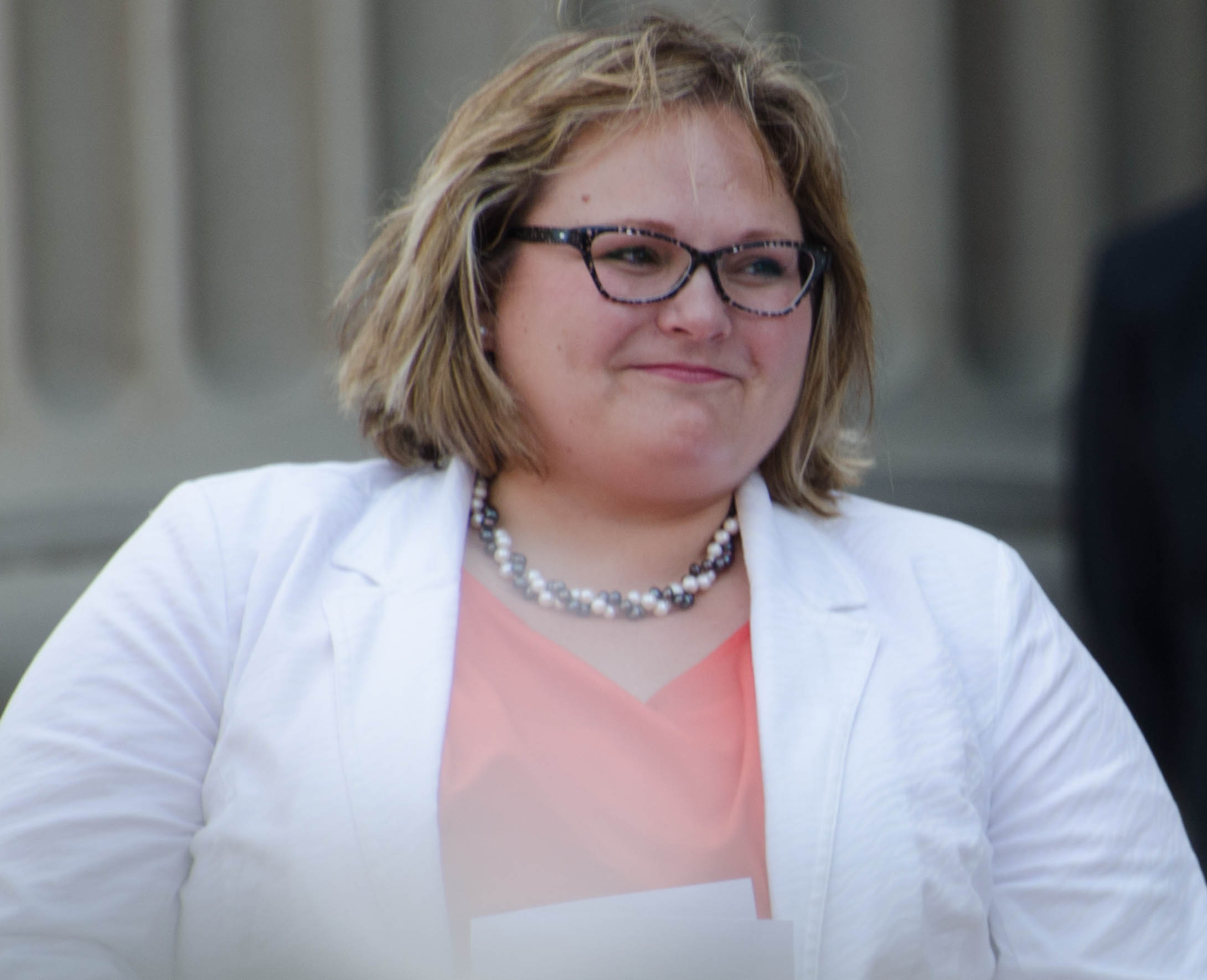 Sarah Hoffman at the 2015 Alberta Premier/Cabinet swearing-in ceremony, by Connor Mah.